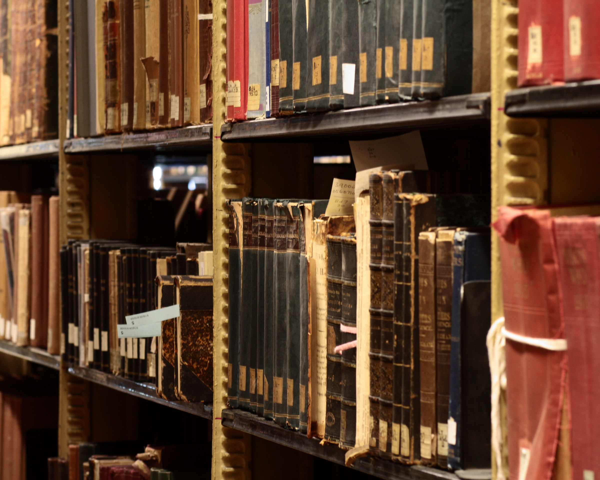 Bookstacks in Sterling Memorial Library at Yale University